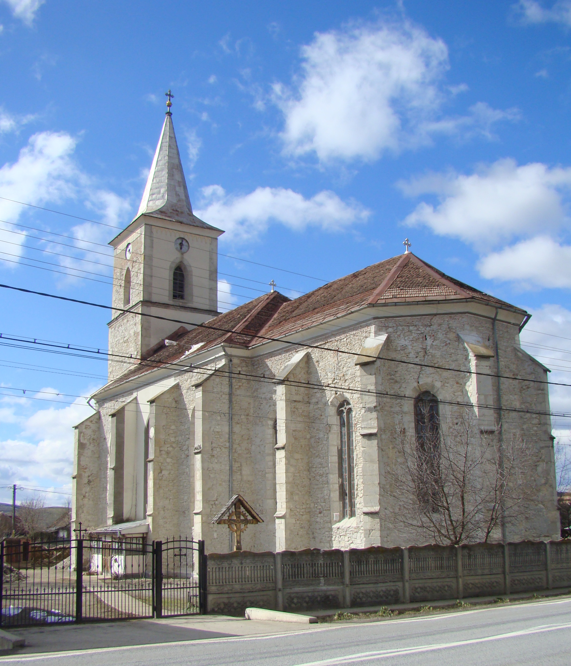 Saint Demetrius church in Dipșa (former lutheran church), Bistrița-Năsăud county, Romania